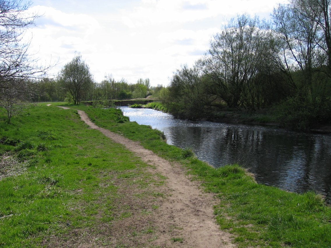 The River Tame in the lower part of Reddish Vale Country Park, Stockport.